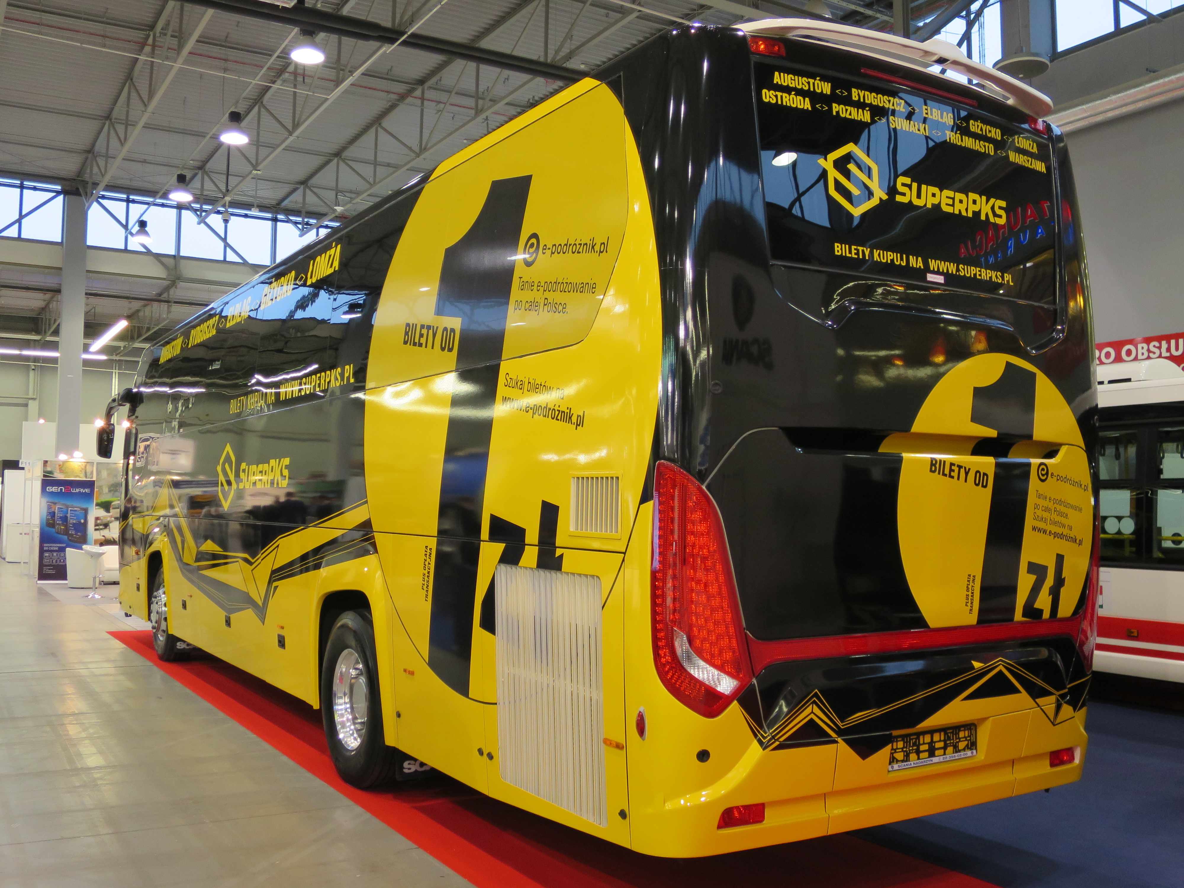 The making of this document was supported by Wikimedia Polska Association, within Wikigrant no. WG 2016-45. Scania Touring Super PKS